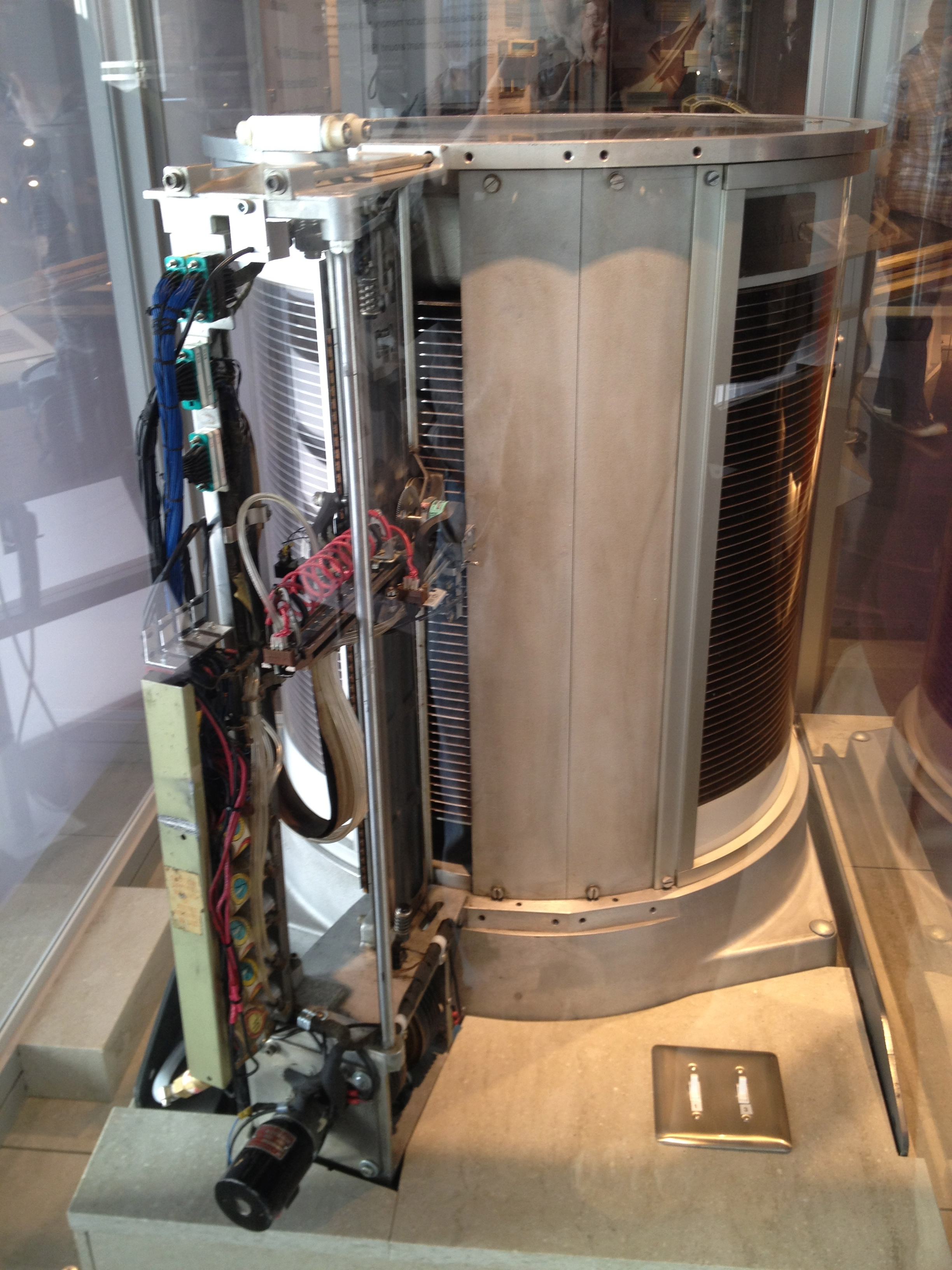 IBM 350 RAMAC disk mechanism at the Computer history Museum